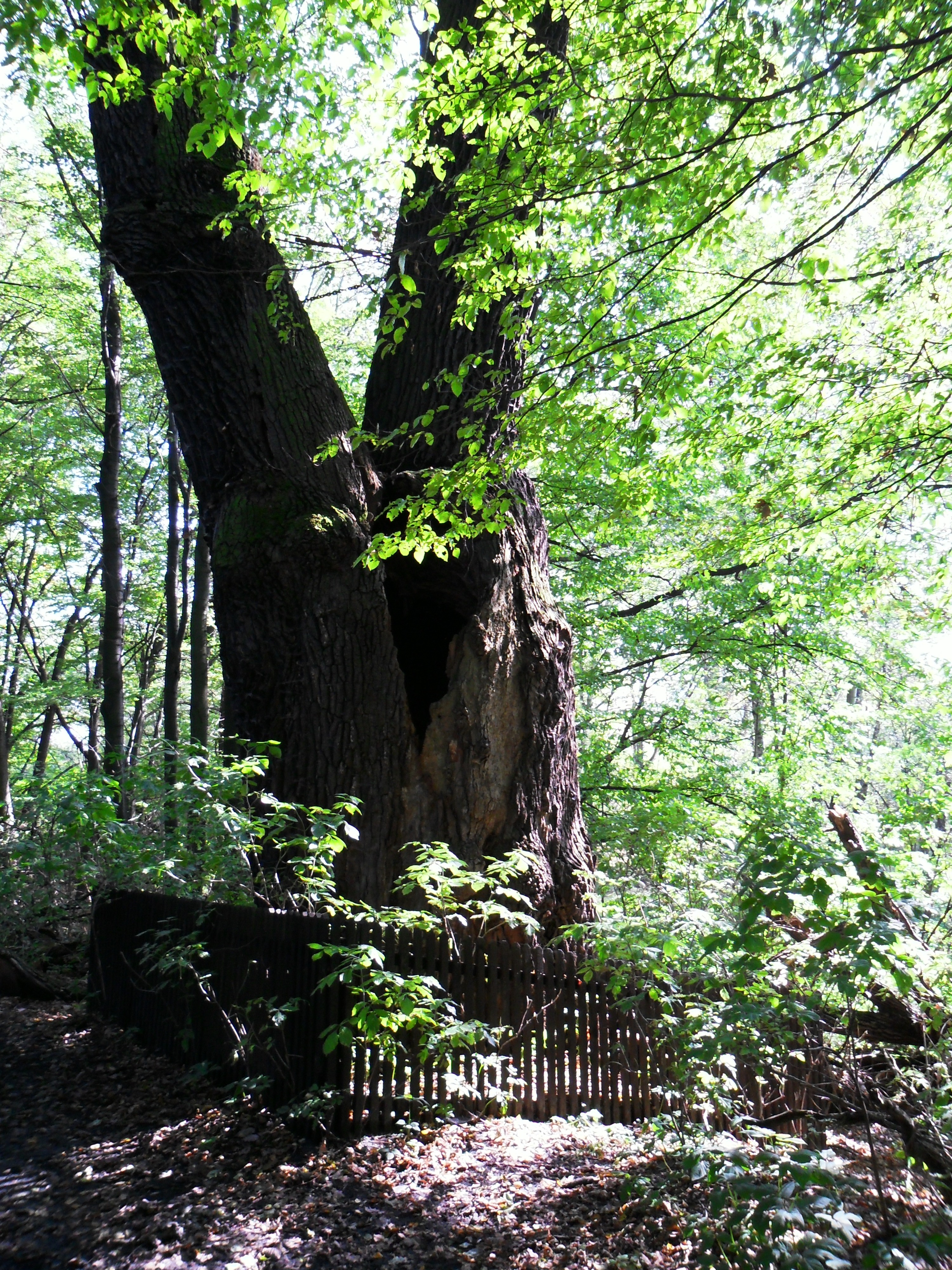 Sobieski Oak in Łężczok nature reserve, Racibórz (natural monument)